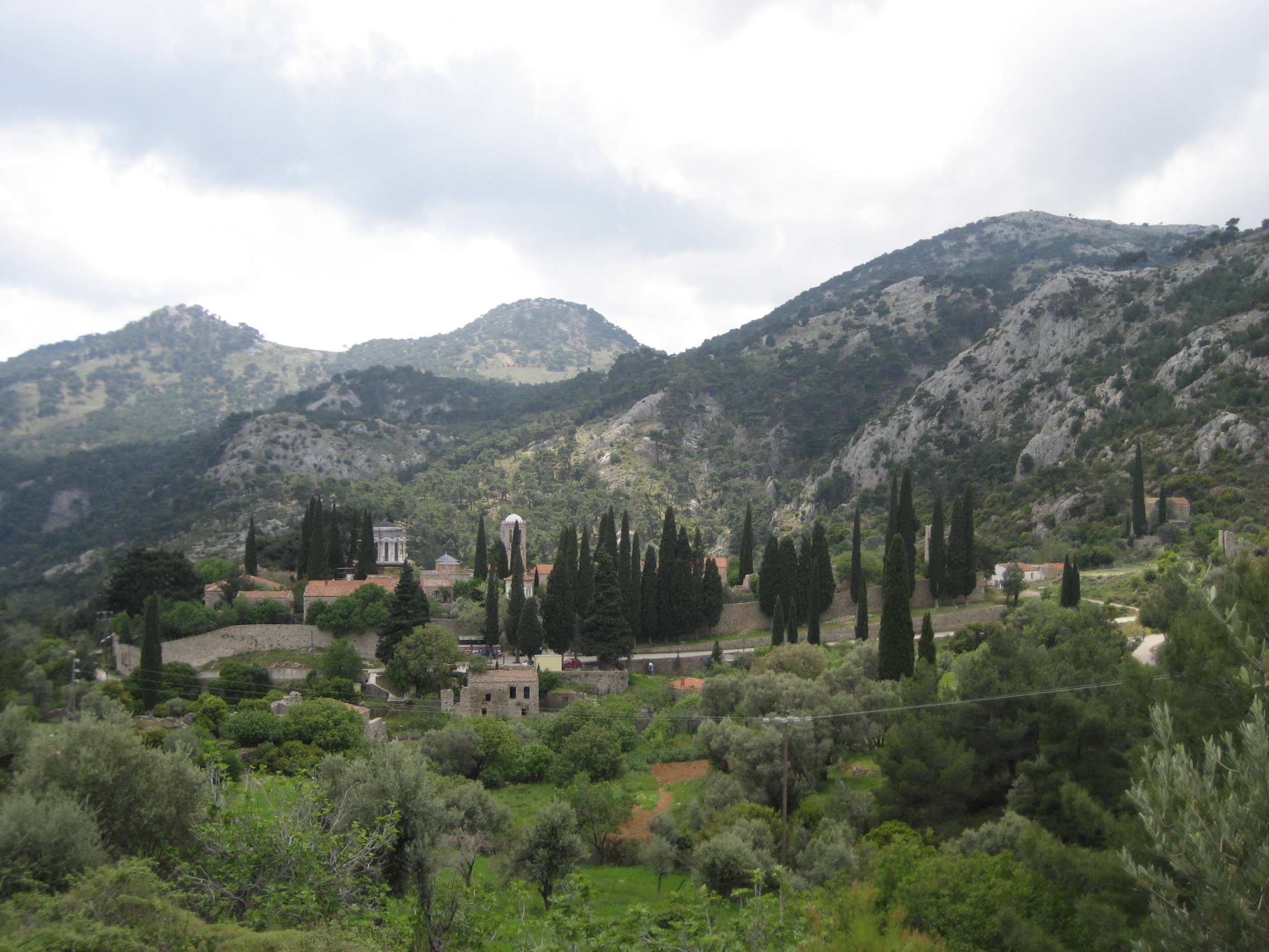 Monastery of Nea Moni of Chios